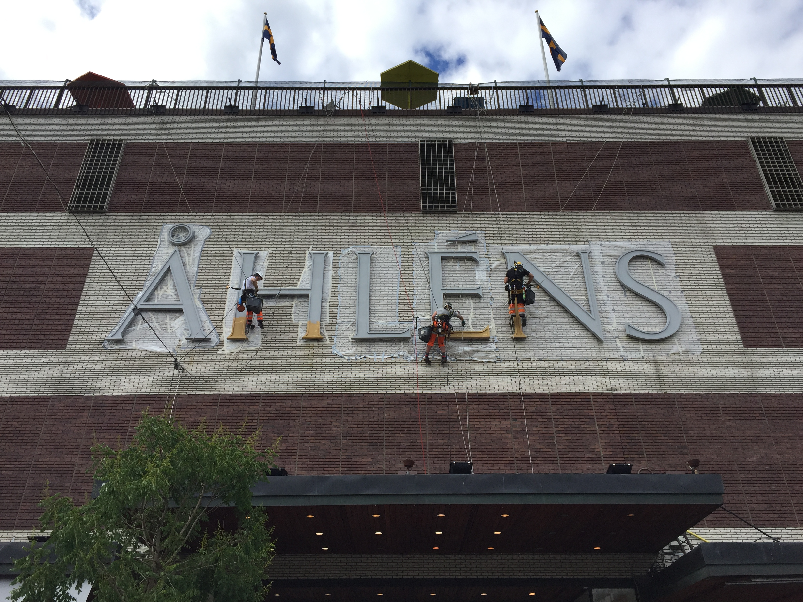 Renovation of the sign of the department store Åhléns in central Stockholm, Sweden, 2017